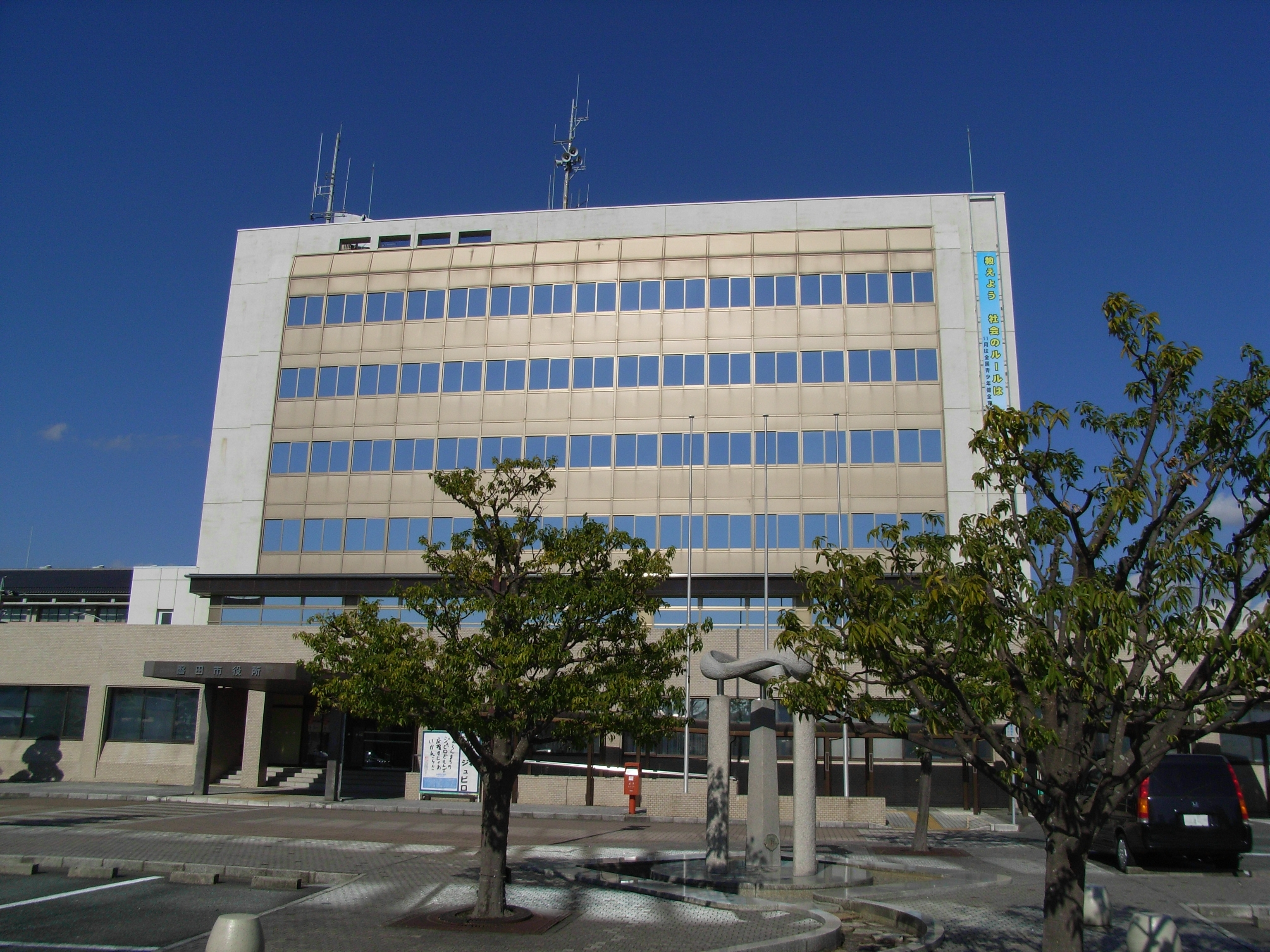 Iwata City Office